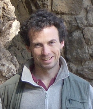 Author and journalist Richard Askwith by a wall